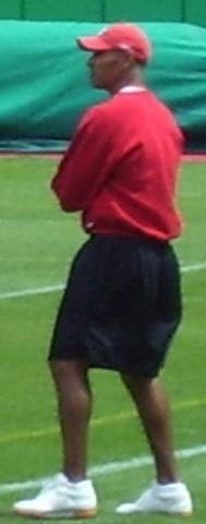 Herm Edwards, head coach of the Kansas City Chiefs at a mini camp open to the public, 2007.